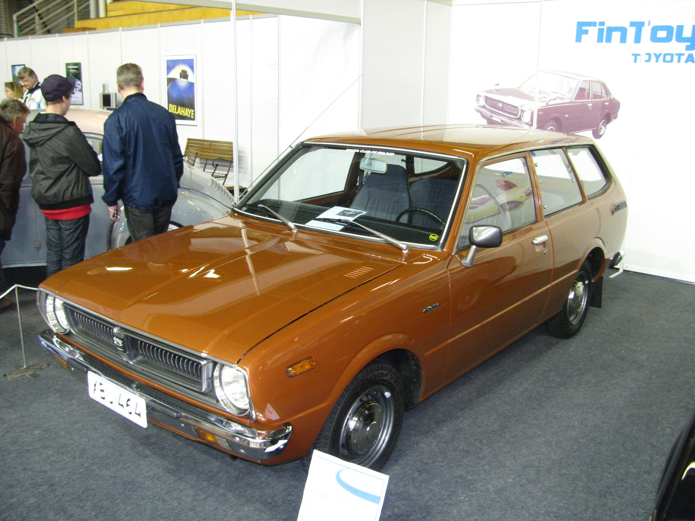 Toyota Corolla KE-36 estate wagon. Classic Motor Show in Lahti, Finland.